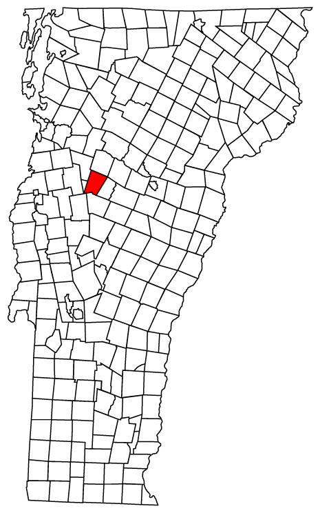 Map of Vermont towns with Fayston highlighted